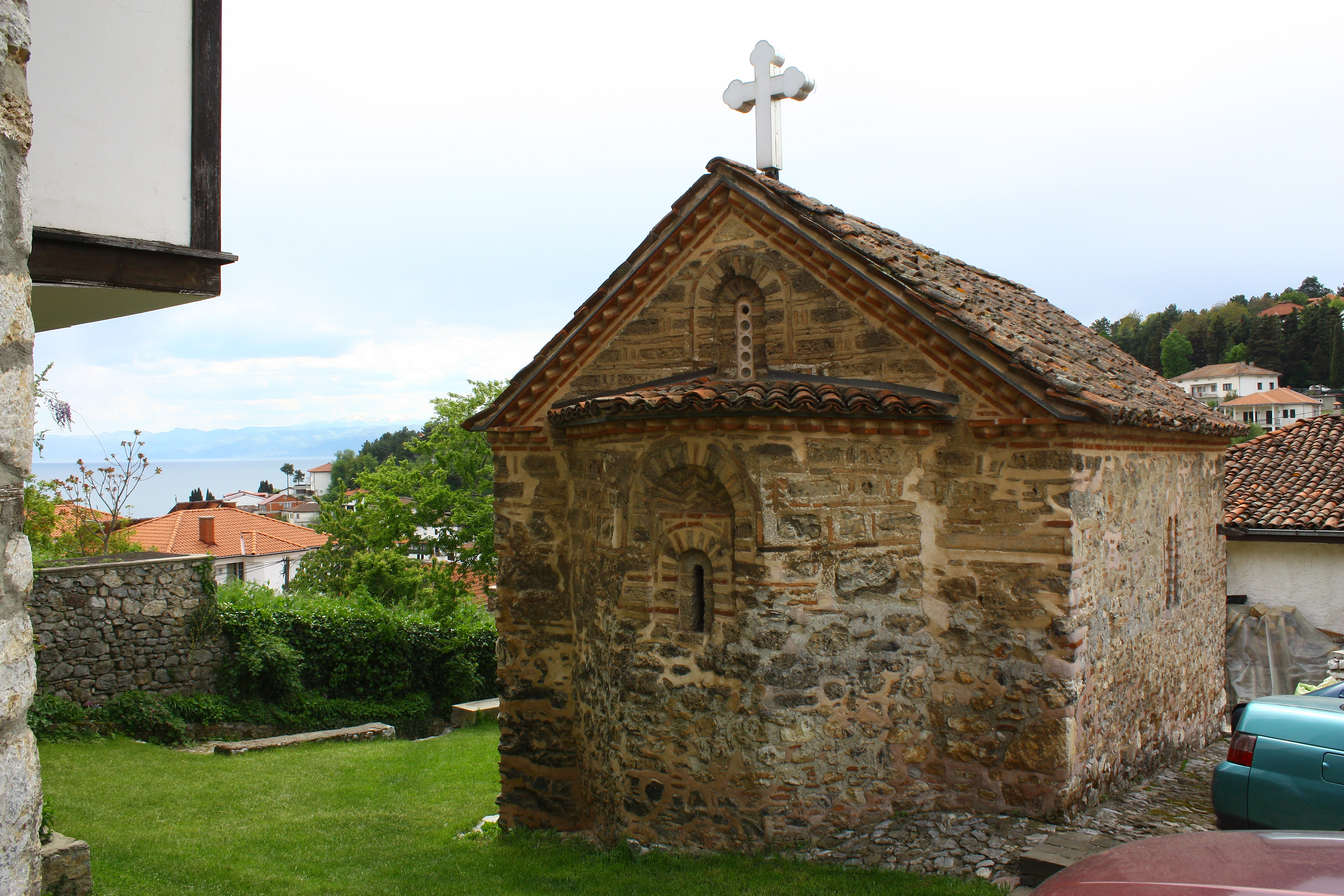 St. Demetrius Mirotočiv Church in Ohrid, Macedonia